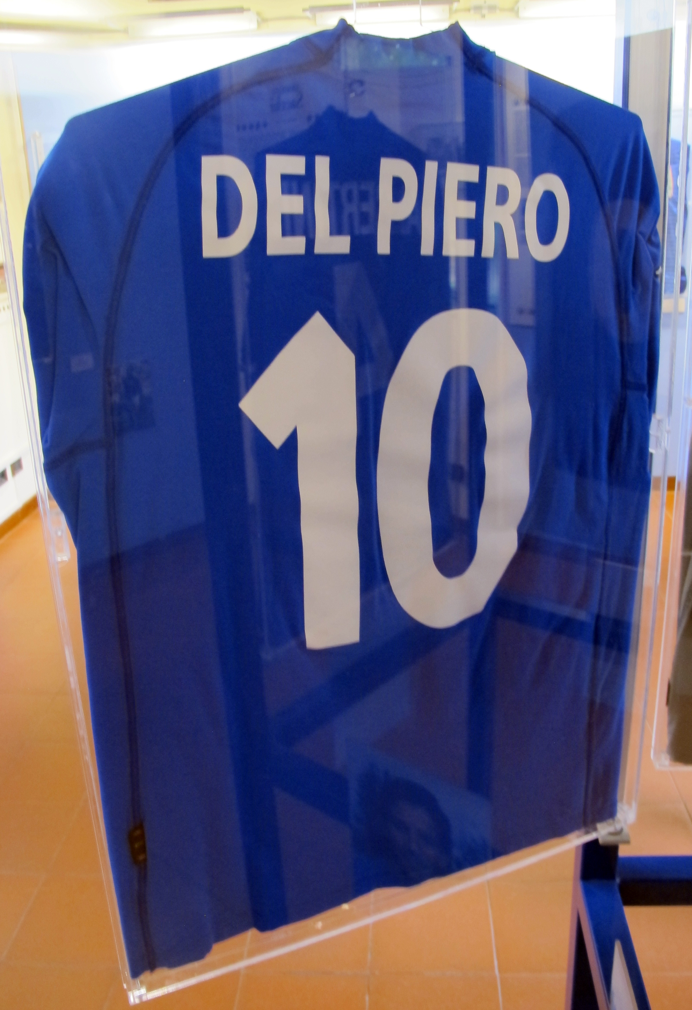 Collections of the Museo del Calcio (Florence)